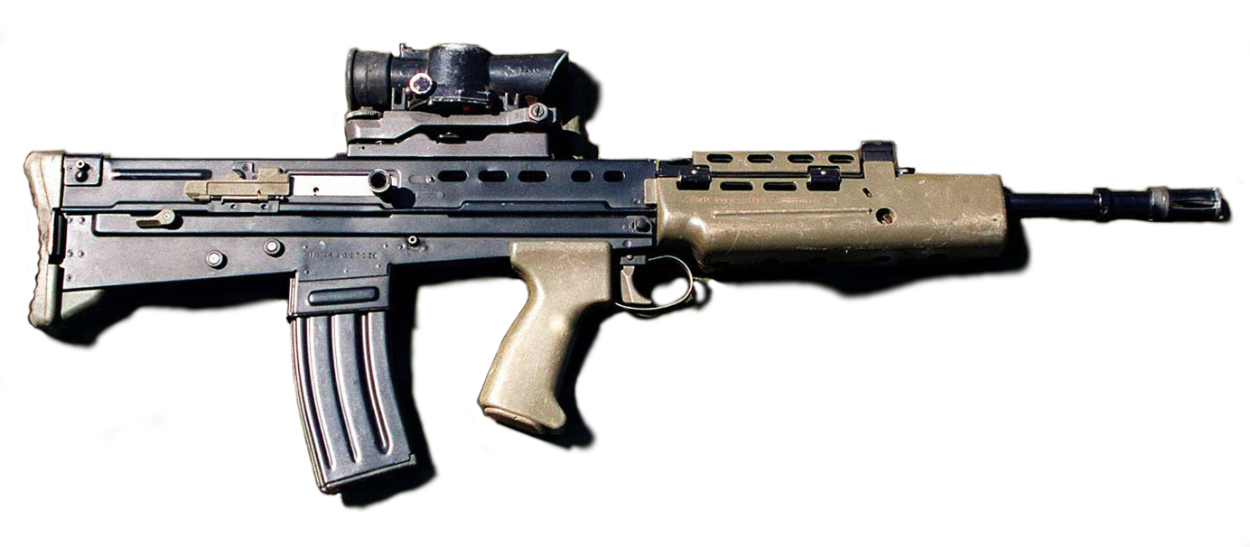 Combat ready SA-80 L85A1 rifle in 1996.